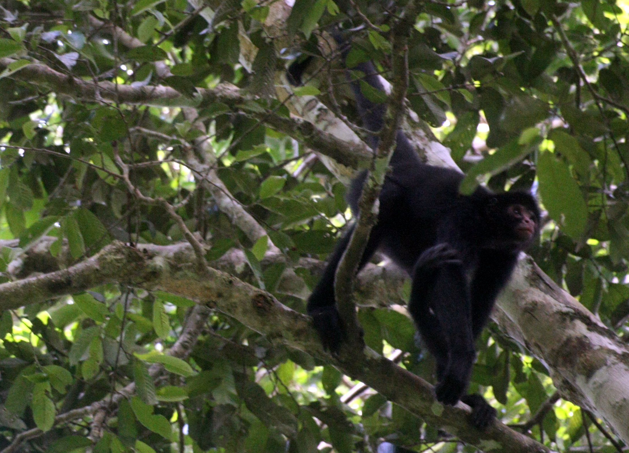 Spider Monkey in a tree